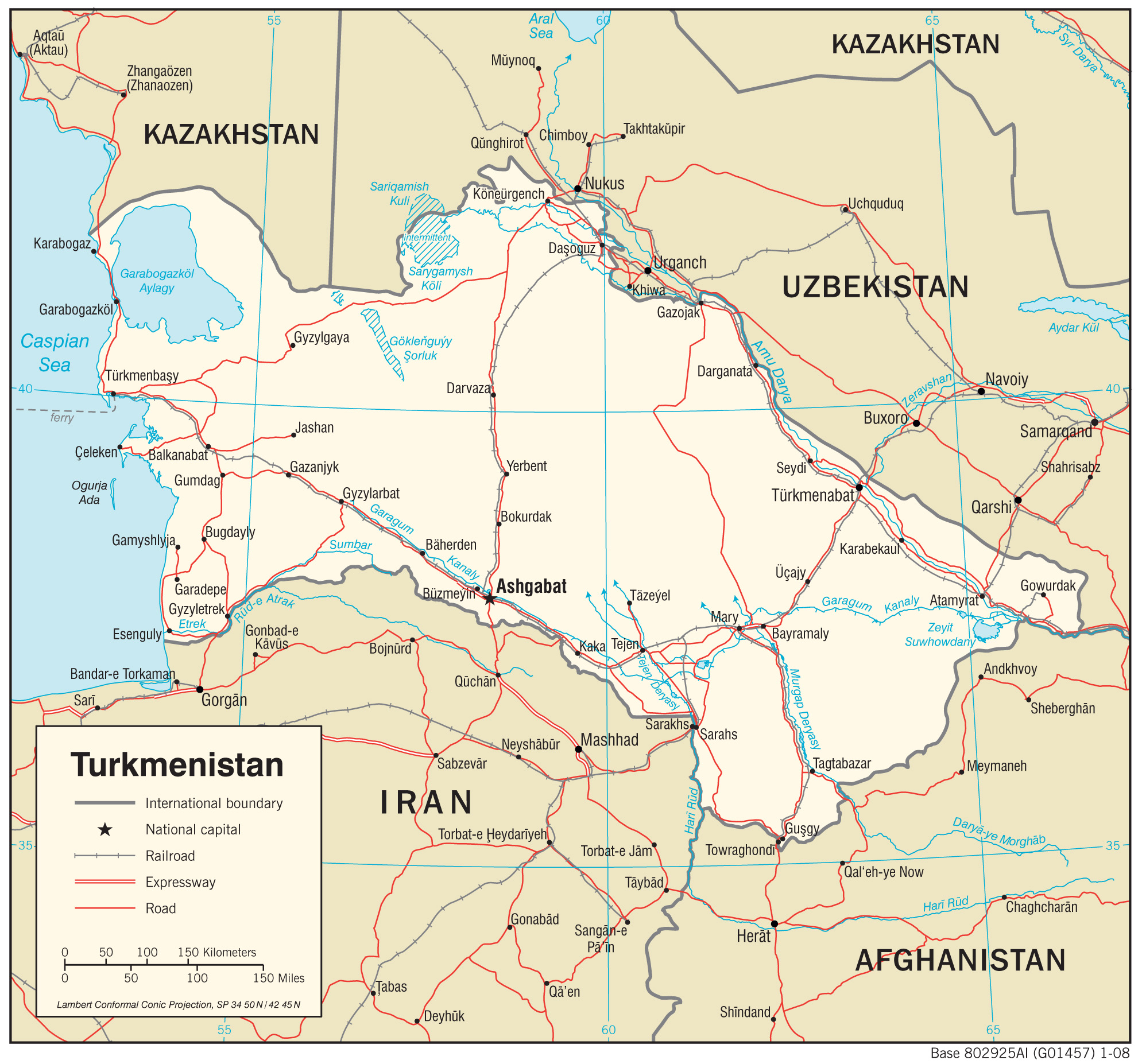 Transport system in Turkmenistan, 2008.